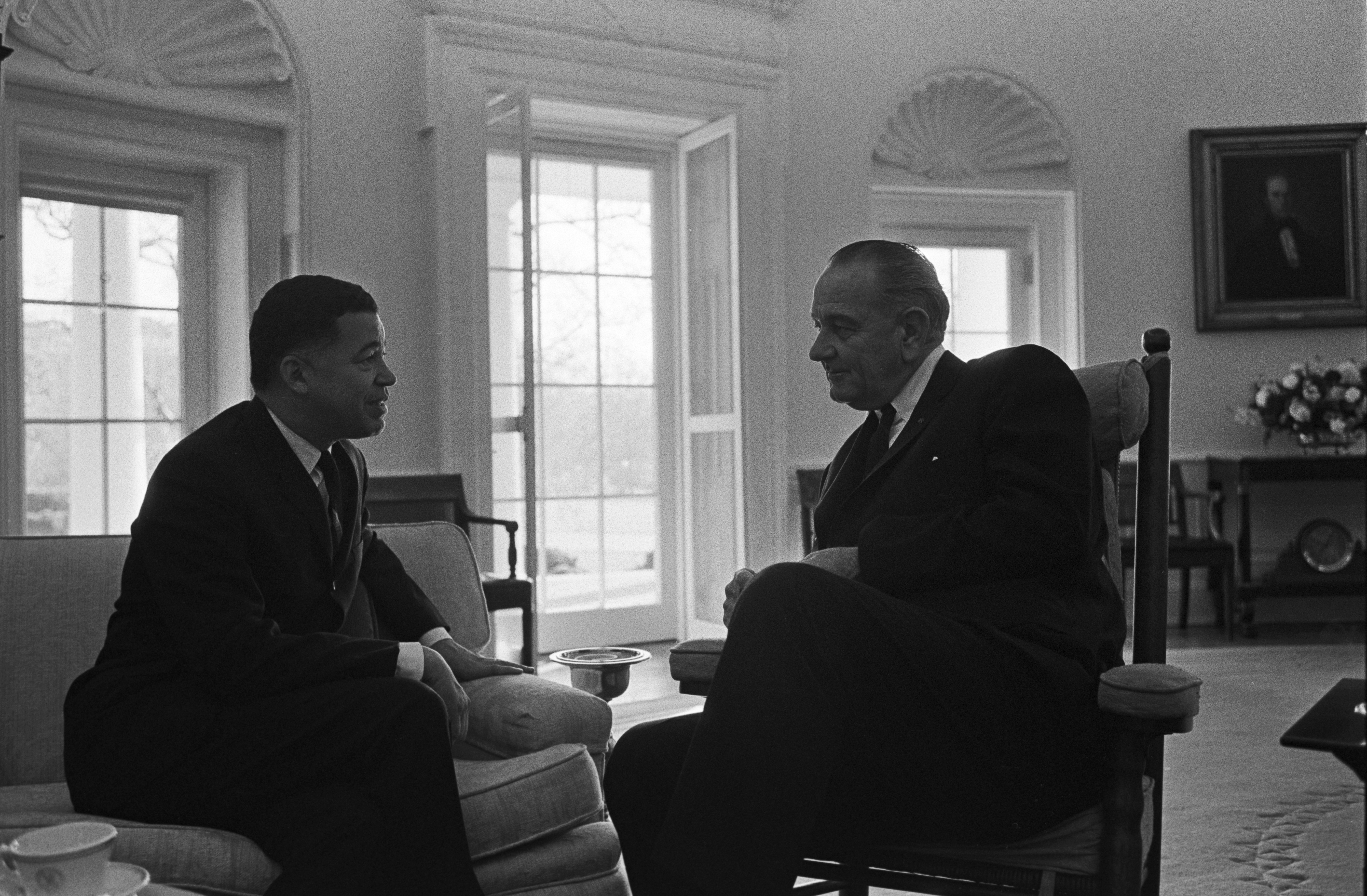 Edward Brooke, United States Senator from Massachusetts, Lyndon Johnson, President of the United States, 1967.